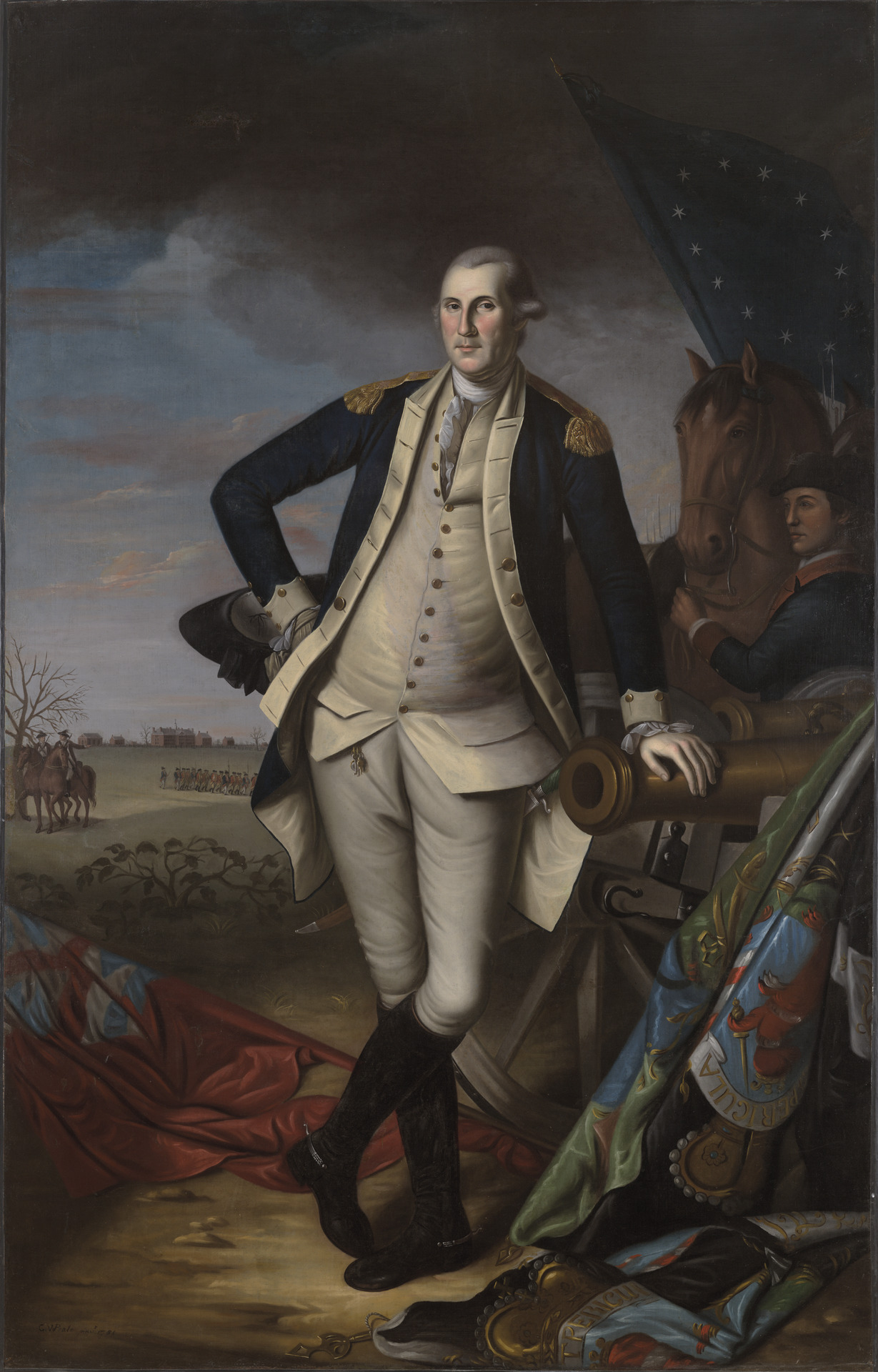 Courtesy of the Yale University Art Gallery, Yale University, New Haven, Conn.